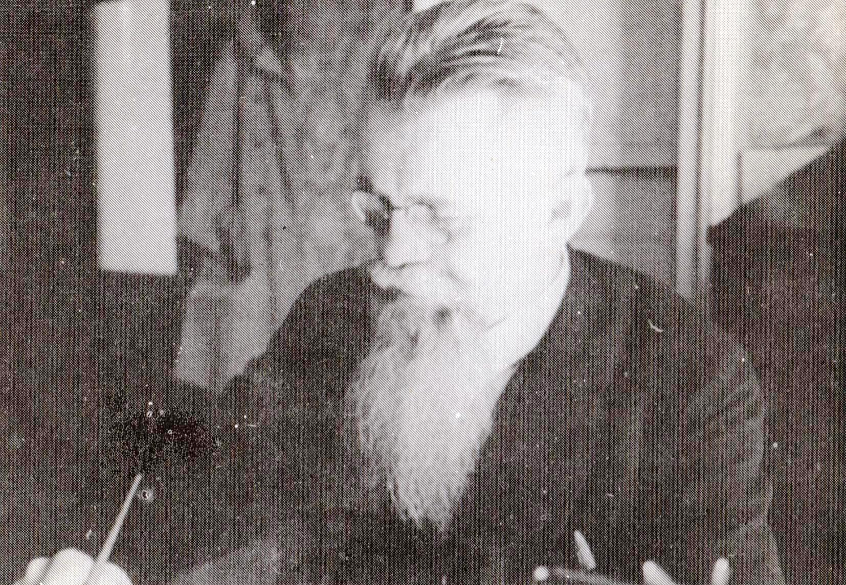 Jindřich Veselý in about 1939.